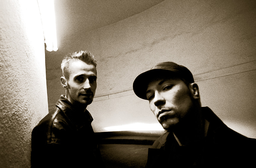 Spax (links) und DJ Mirko Machine in Hannover 1998